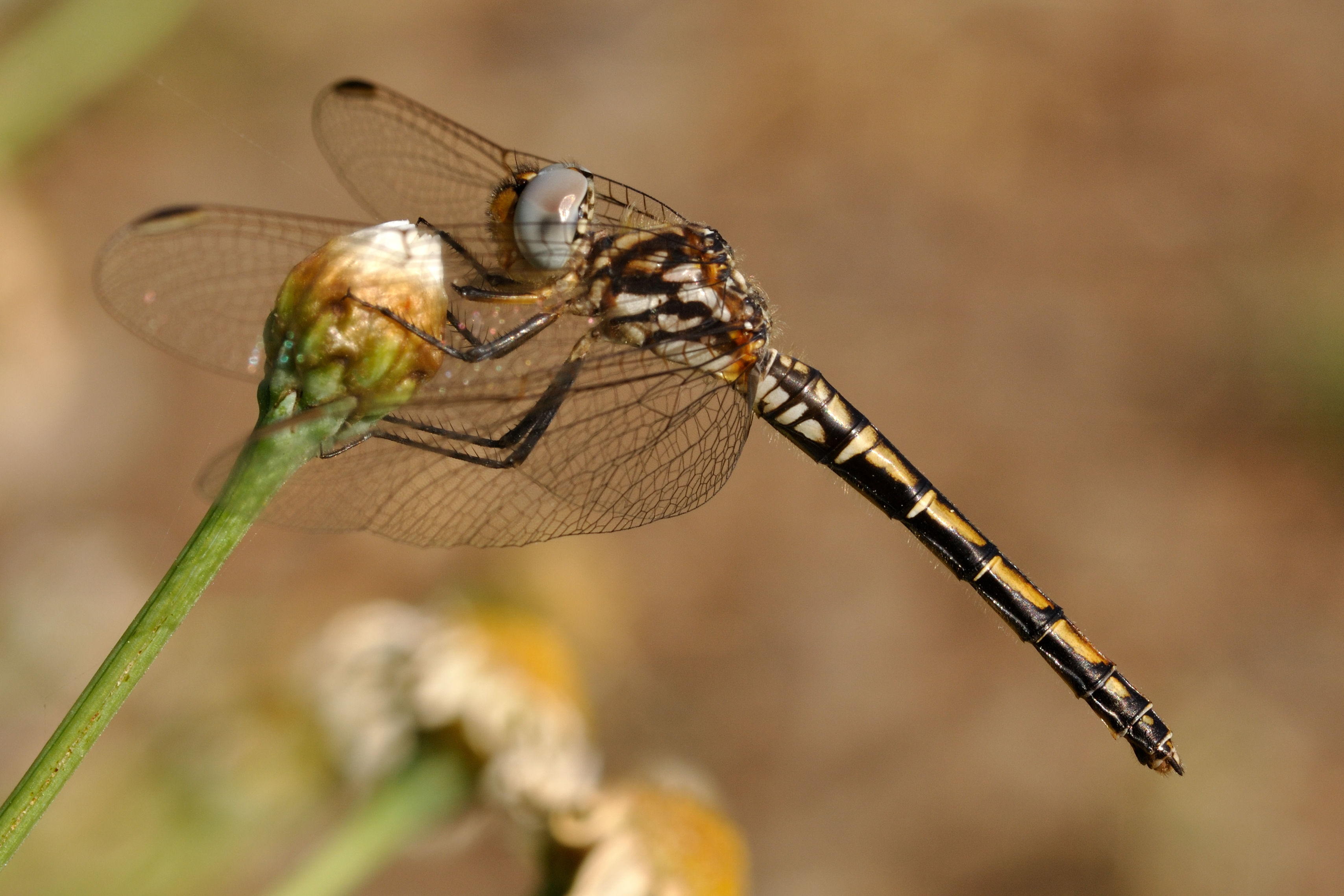 Female Red-veined Dropwing (Trithemis arteriosa) in Puerto de la Cruz, Tenerife, Spain.